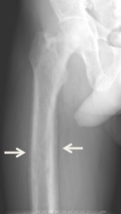 X-ray of periosteal reaction in renal osteodystrophy. The subject is a 33-year-old male with end-stage renal disease and tertiary hyperparathyroidism. There is a thin periosteal reaction and cortical tunneling on the femur.